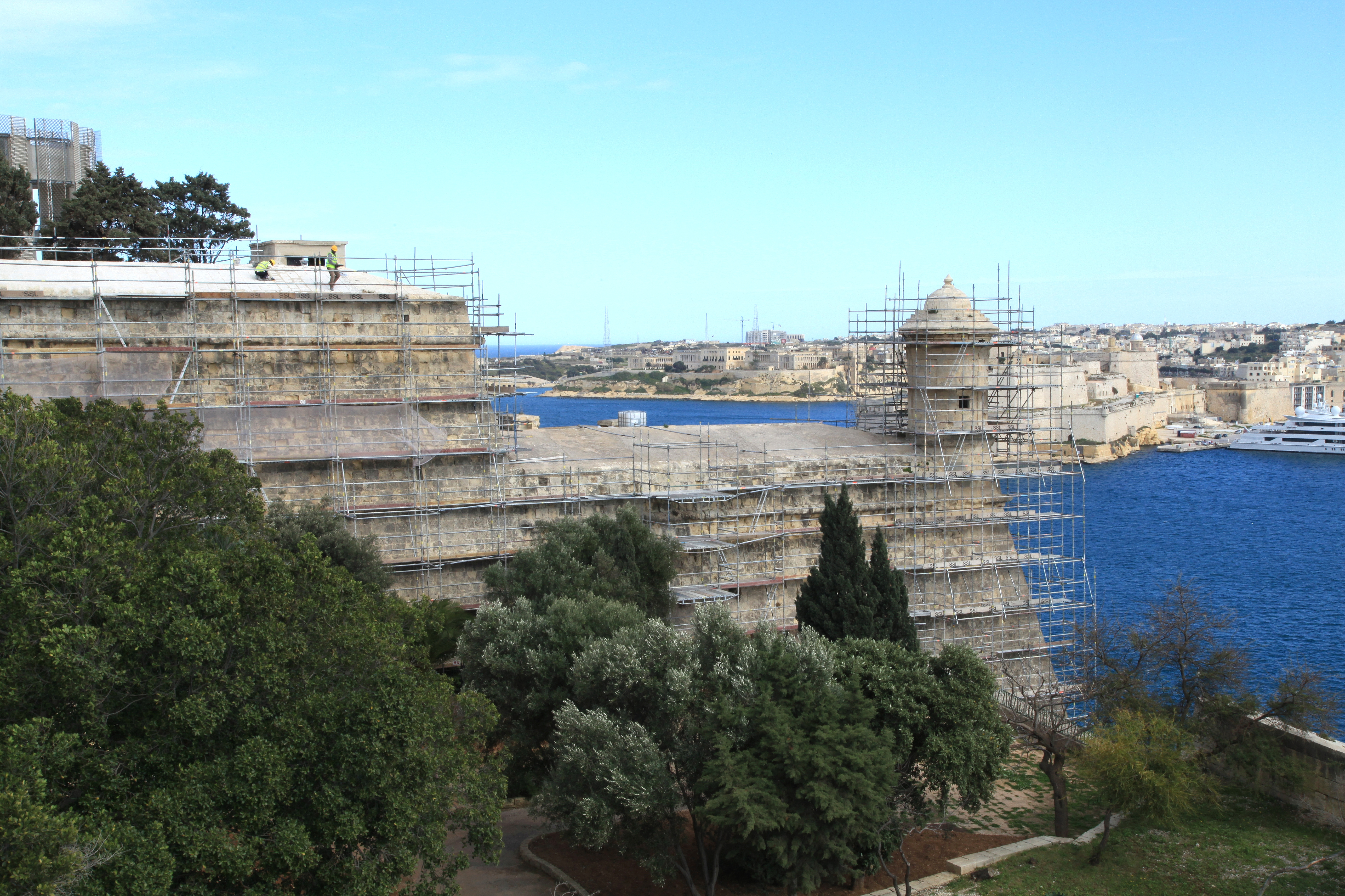 Herbert Ganado Gardens at Triq Girolamo Cassar in Valletta, Malta